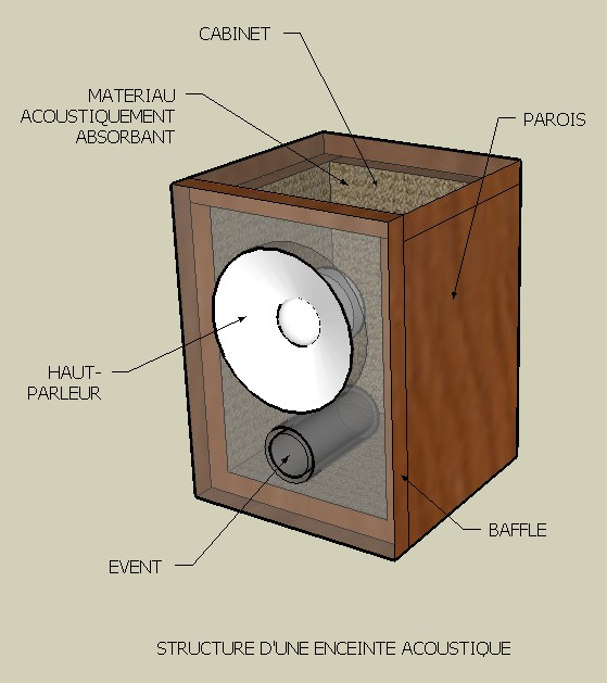 Structure of a loudspeaker